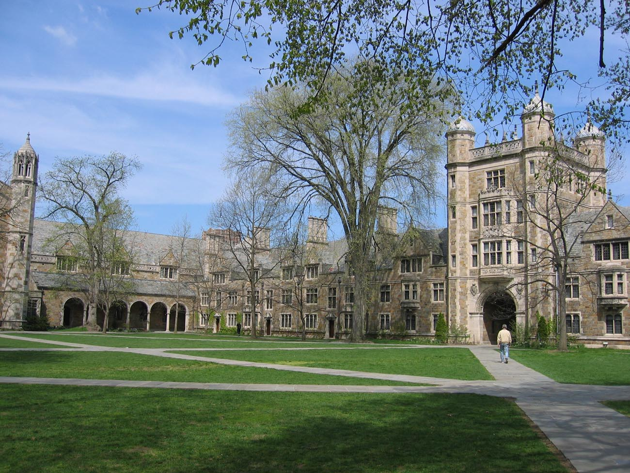 University of Michigan, Ann Arbor Law Quadrangle